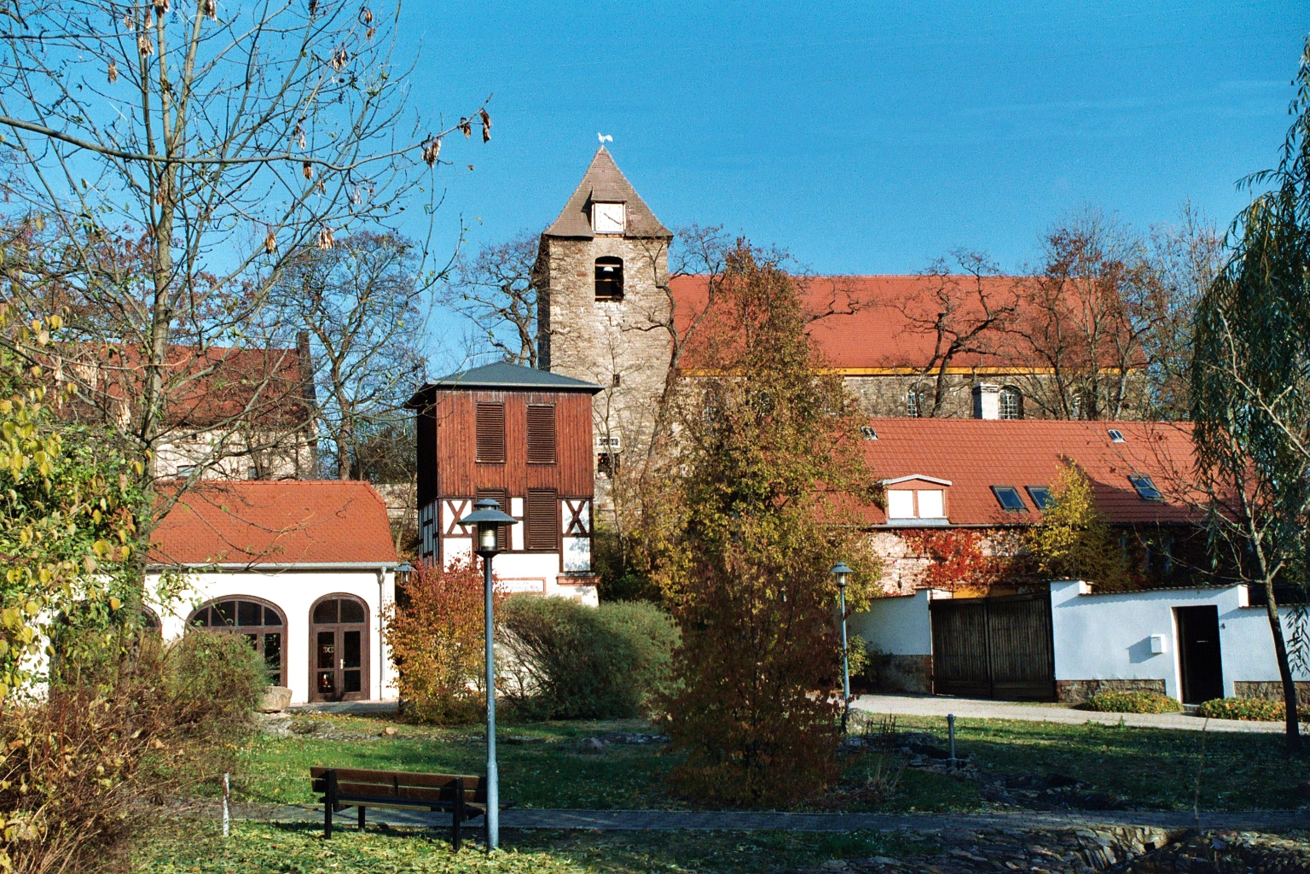 Erdeborn (Seegebiet Mansfelder Land), view to the village church